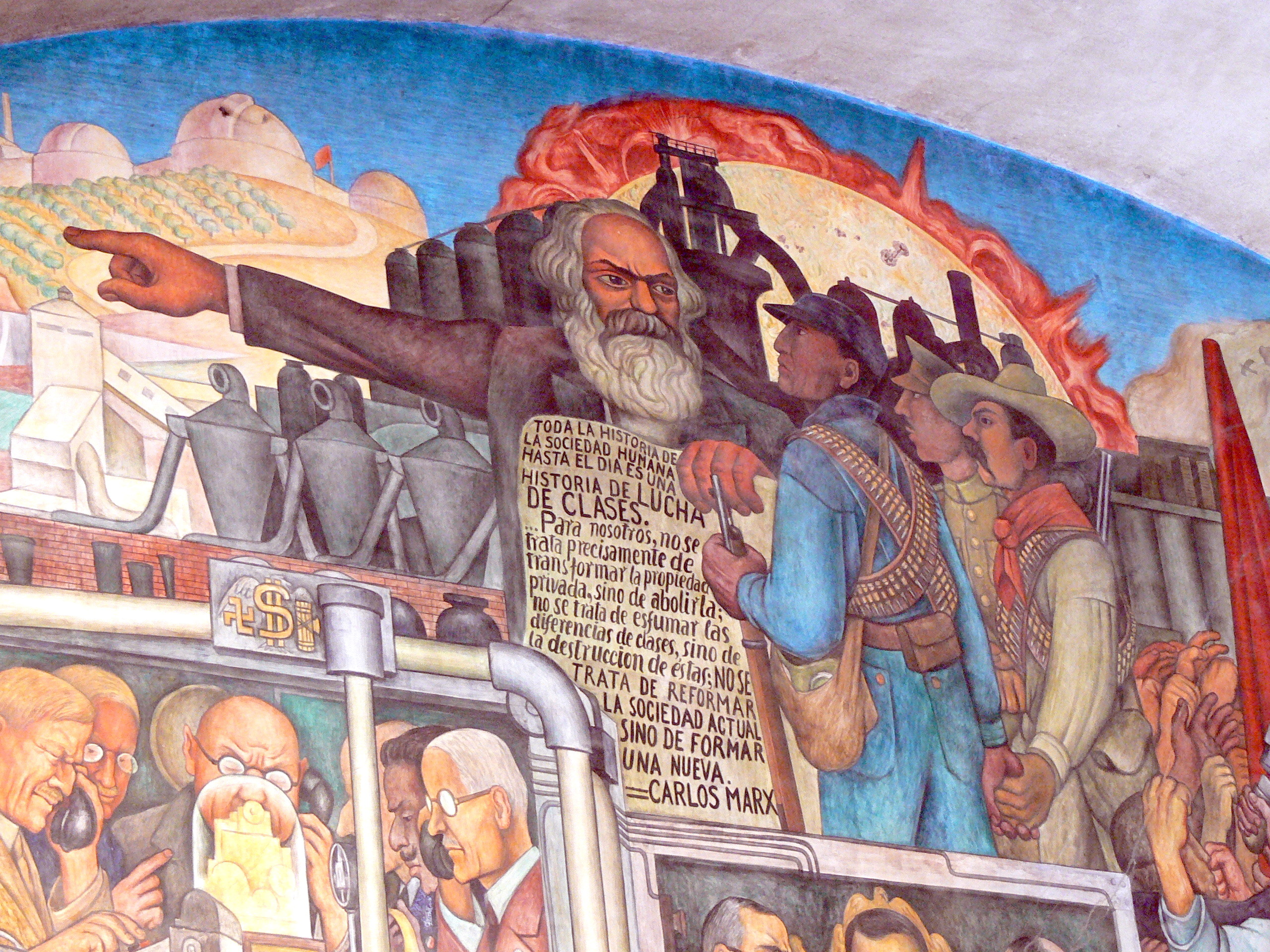 Mexico City - Palacio Nacional. Mural by Diego Rivera showing the History of Mexico: Detail showing Karl Marx.